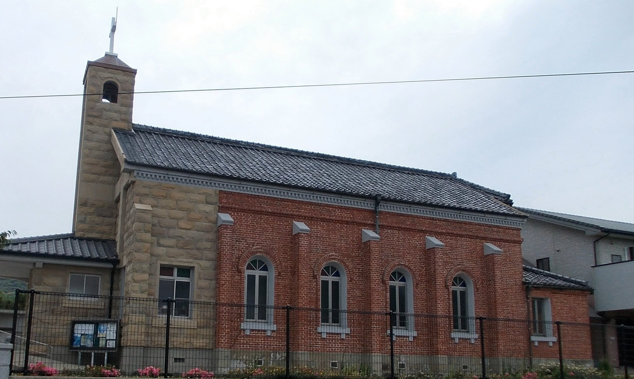 The side of Yamada Catholic Church, Hirado City, Nagasaki, Japan. Taken on 04 June 2011.